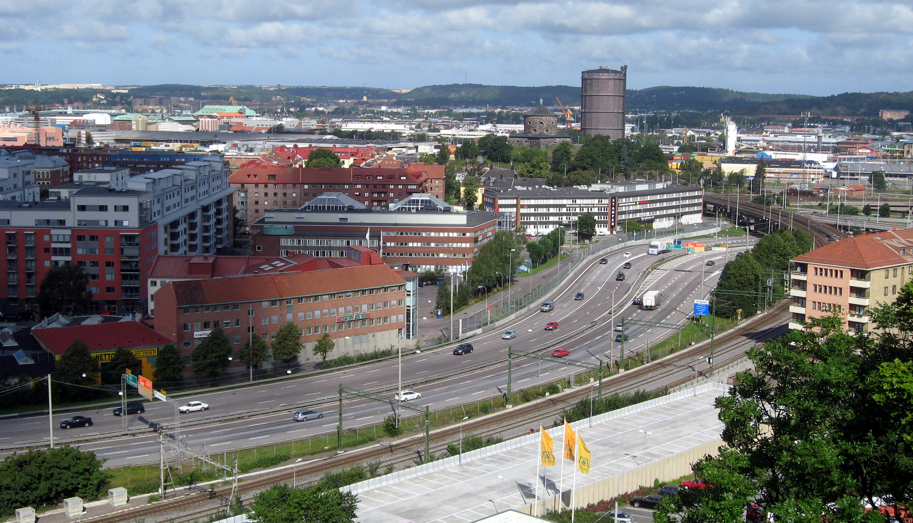 Gothenburg, Sweden